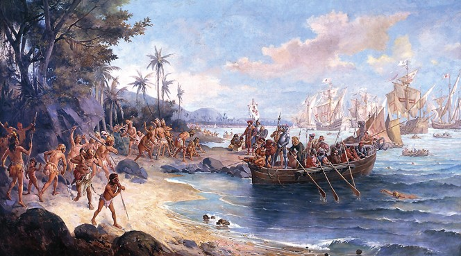 Landing of Pedro Álvares Cabral in Porto Seguro, in 1500